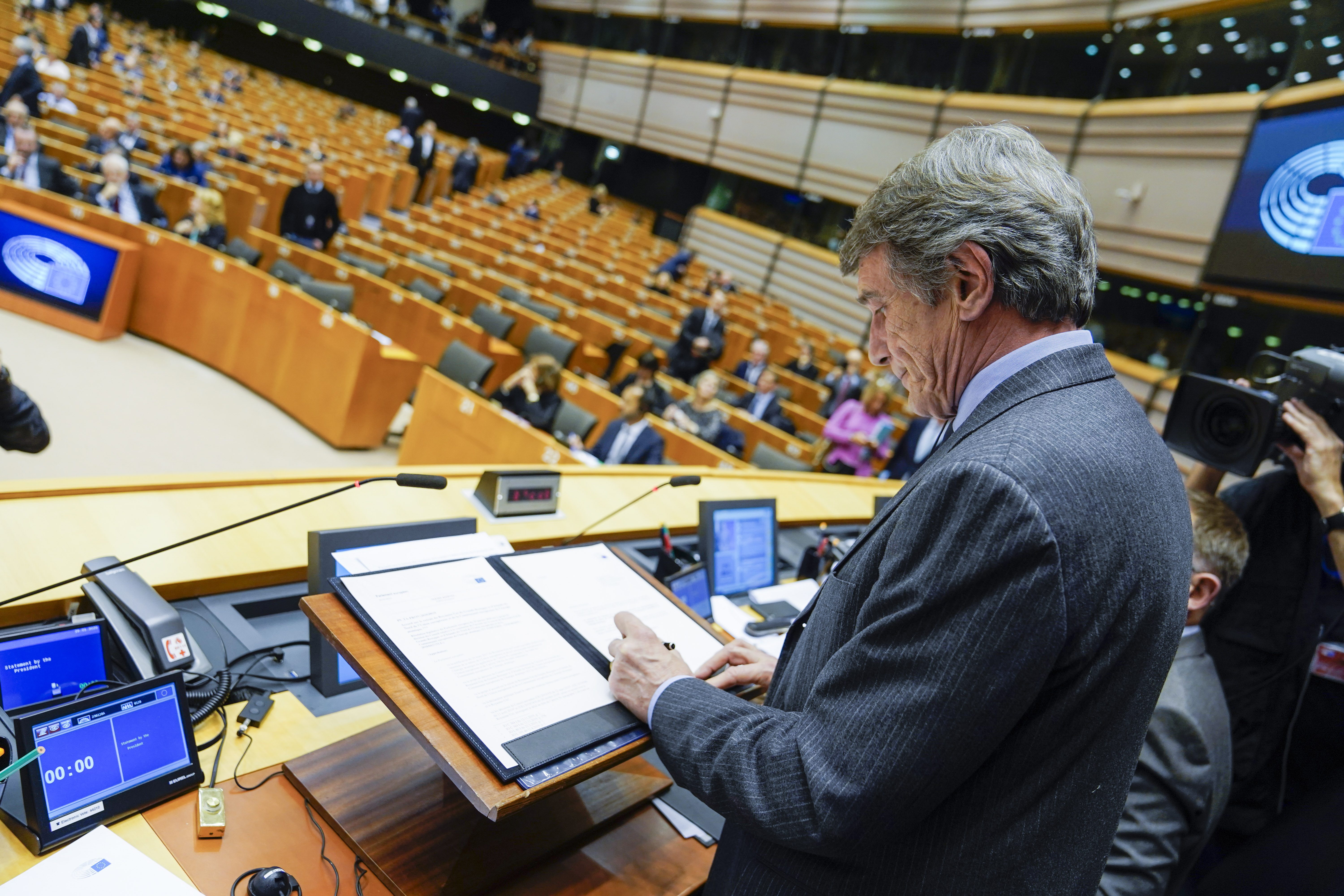 EP Plenary session - Withdrawal Agreement of the United Kingdom of Great Britain and Northern Ireland from the European Union andthe European Atomic Energy Community